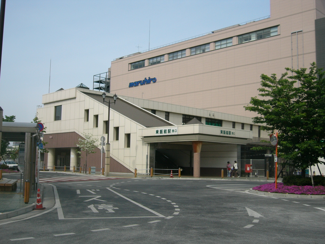 Higashi-hanno Station (West Entrance)